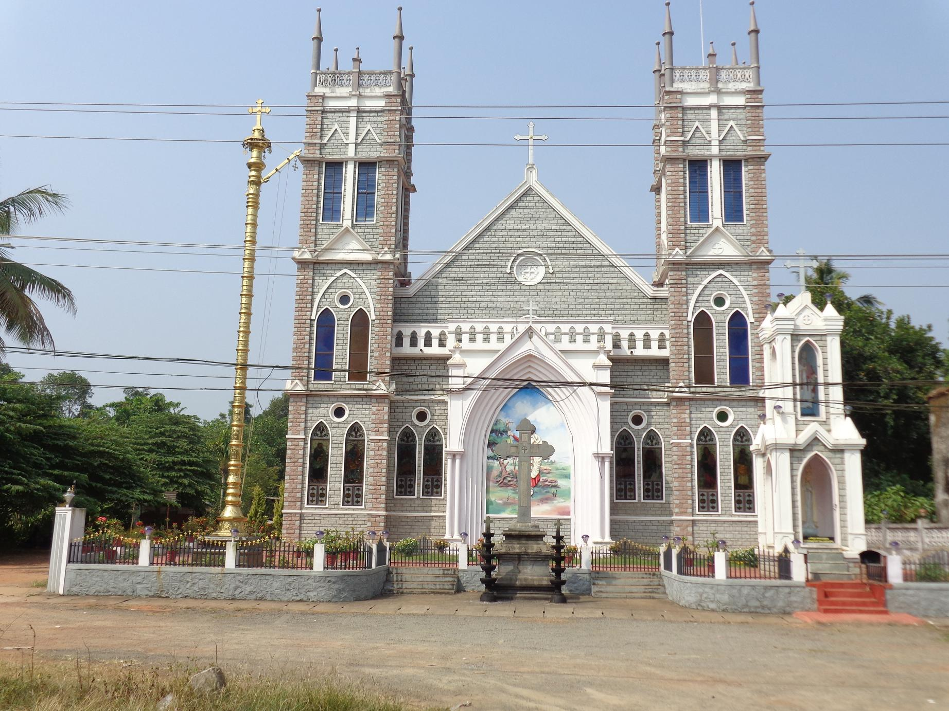 niranam malankara catholic church